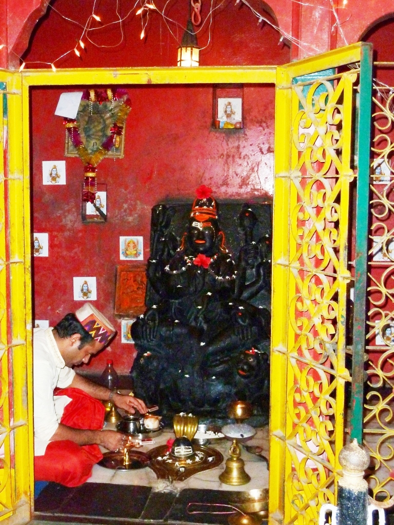 Photo of offering being made to statue of the Madhav in Mandi, Himachal Pradesh